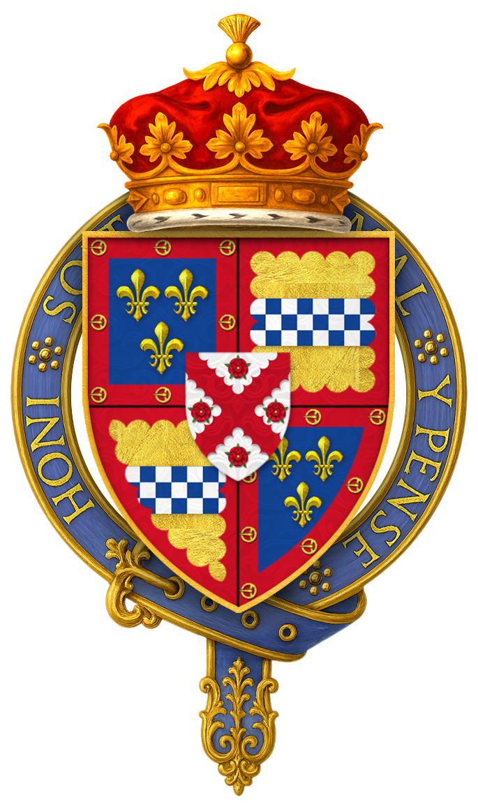 Coat of arms of Sir Ludovic Stewart, 2nd Duke of Lennox, 1st Duke of Richmond, KG